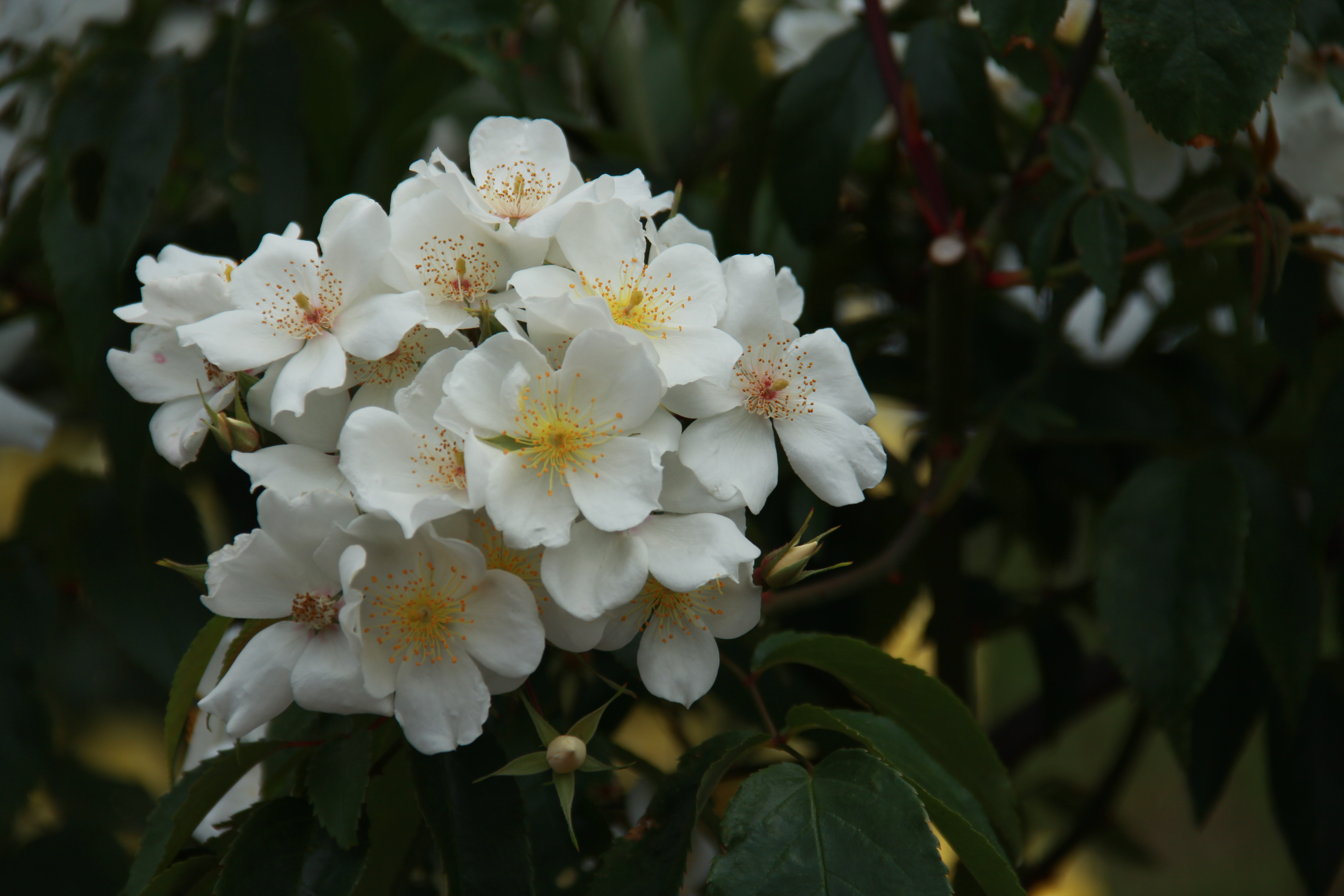 Rosa moschata